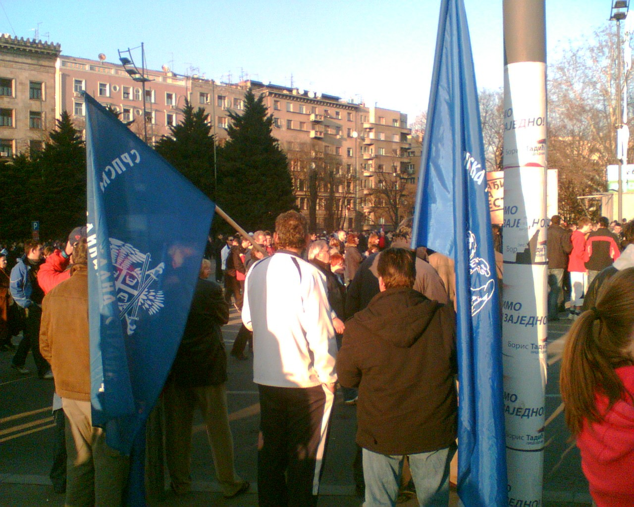 Demonstrators gathering before the government-organised protest meeting outside the old federal parliament building in Belgrade. This photo was taken on my Nokia phone.